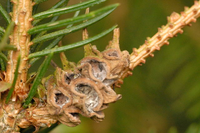 Sacchiphantes abietis from Commanster, Belgian High Ardennes .